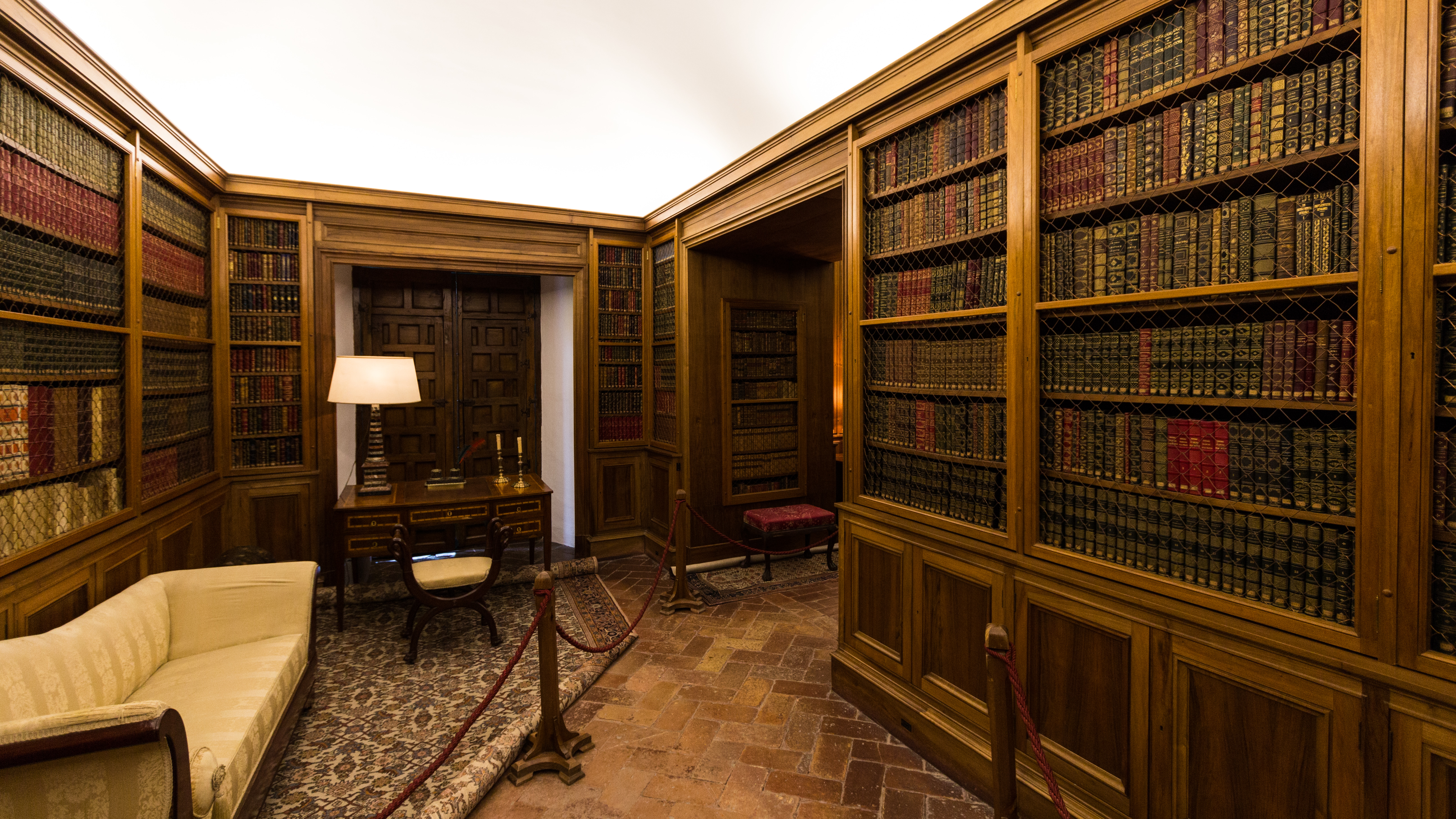 Córdoba, Spain.